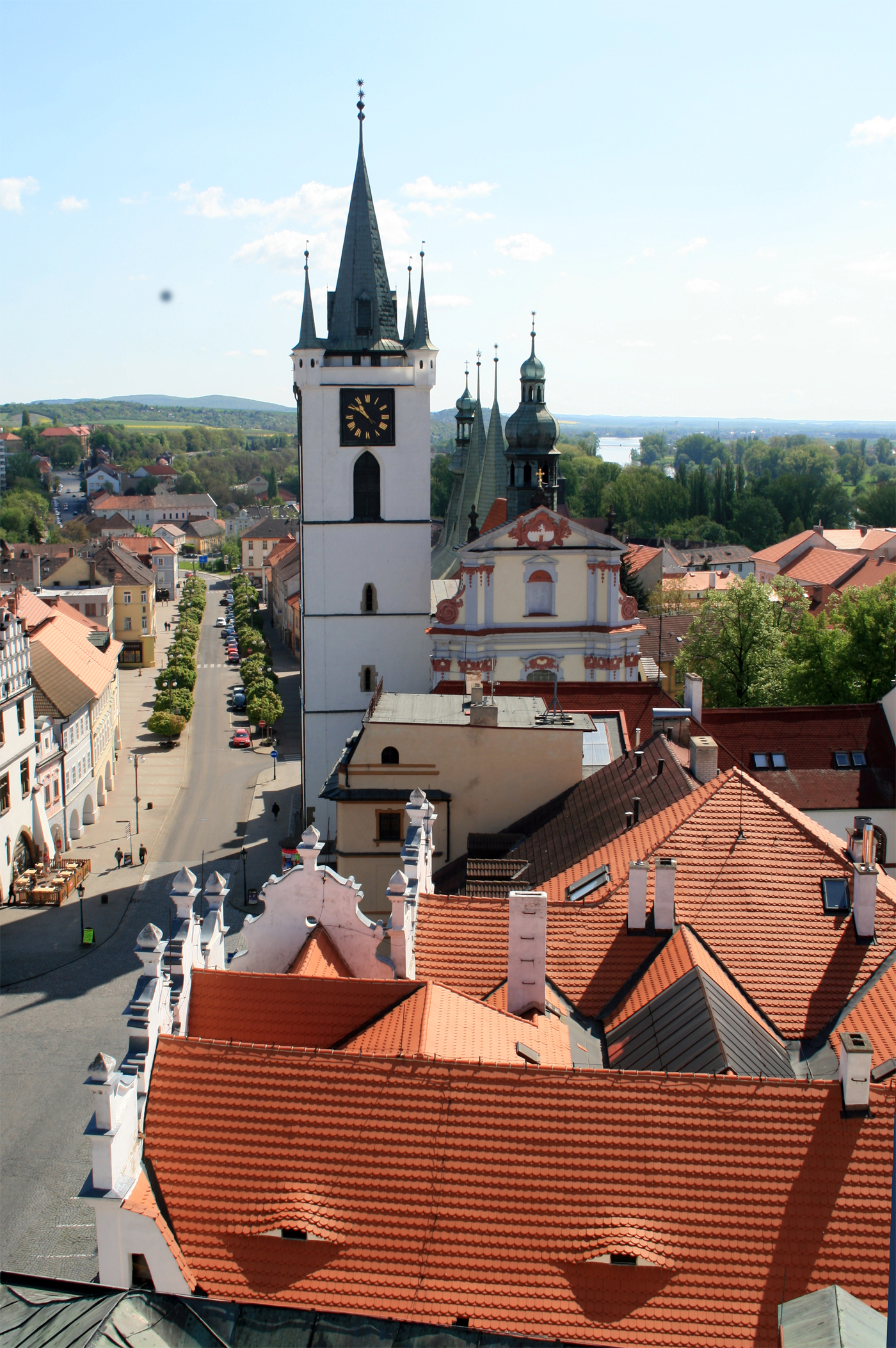 A view from House “Goblet” in main square of Litoměřice, Czech Republic, towards the east. Dlouhá (Long) Street and All Saits church.